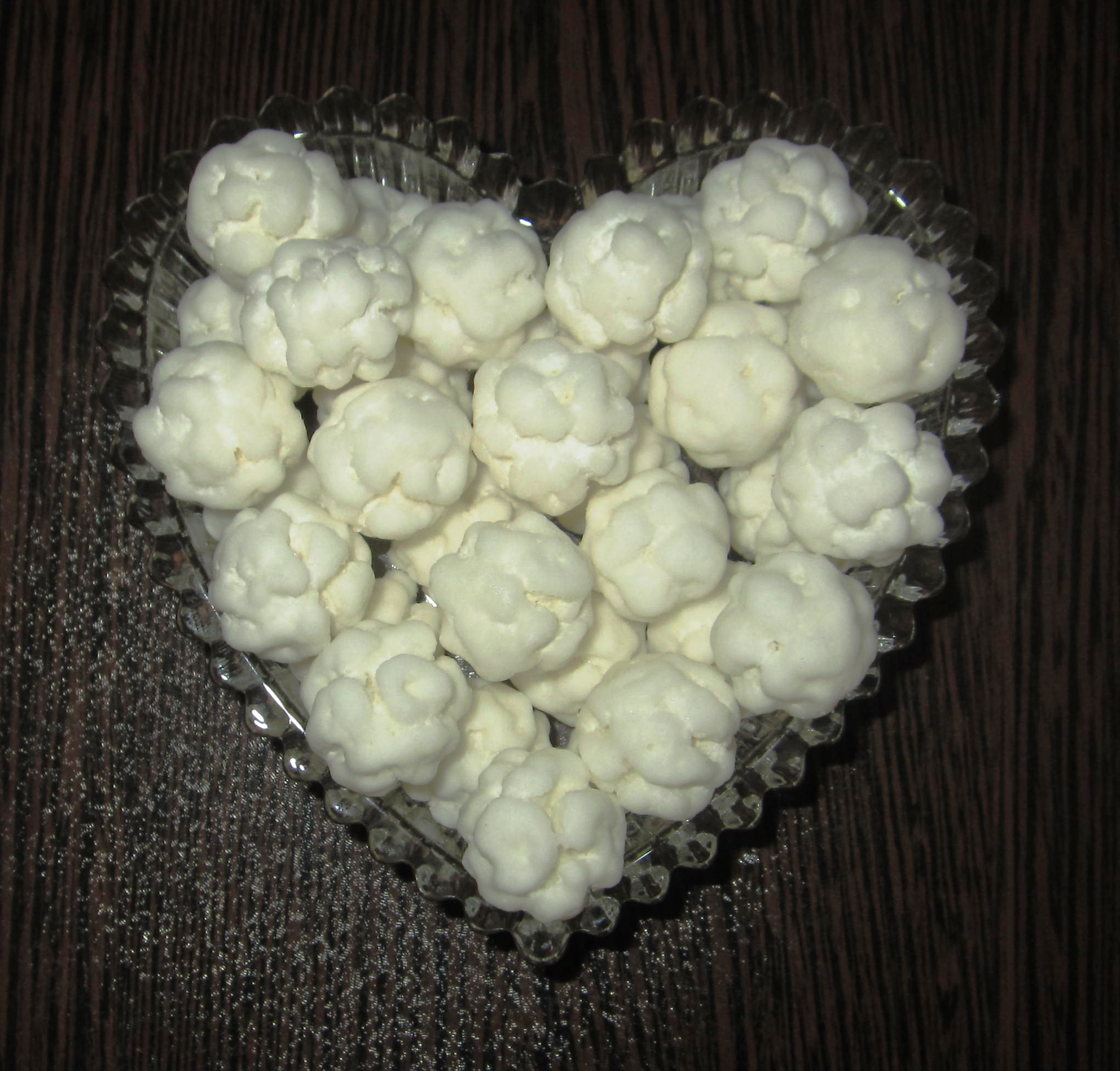 Noghl, Iranian pastry and a souvenir of Urmia